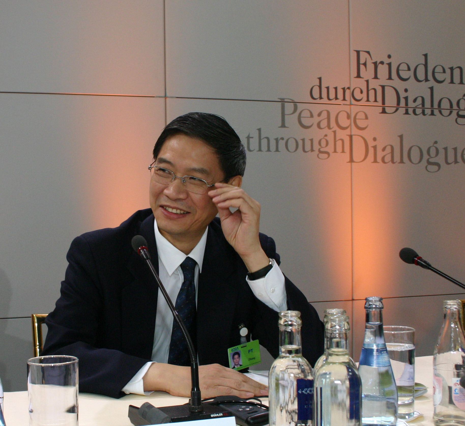 42nd Munich Security Conference 2006: Zhijun Zhang, Vice-Minister, International Department, Central Committee of the Communist Party of China, People's Republik of China.